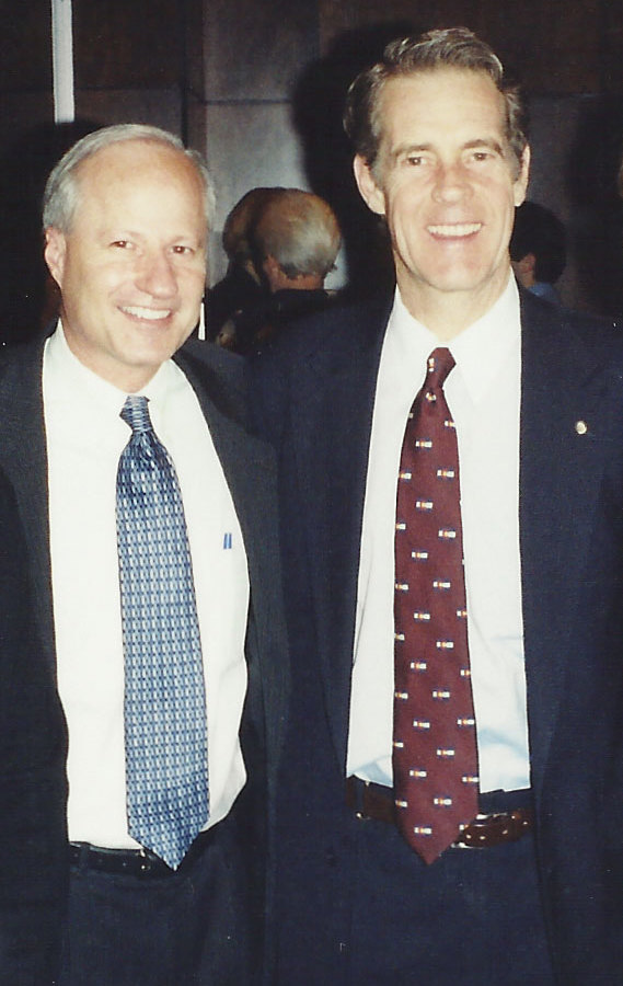 Linda Gorman, Mike Coffman, and John Andrews at an Independence Institute event at the Brown Palace in Denver, December 5, 2002.